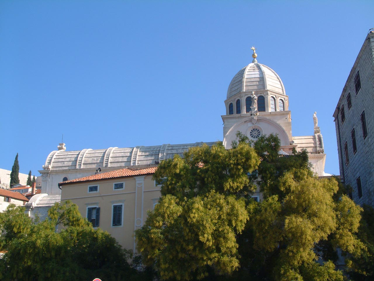 Šibenik (Sibenik), cathedral, Croatia UNESCO site, 2005.